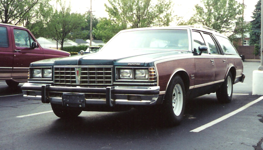 1977 Pontiac Grand Safari station wagon